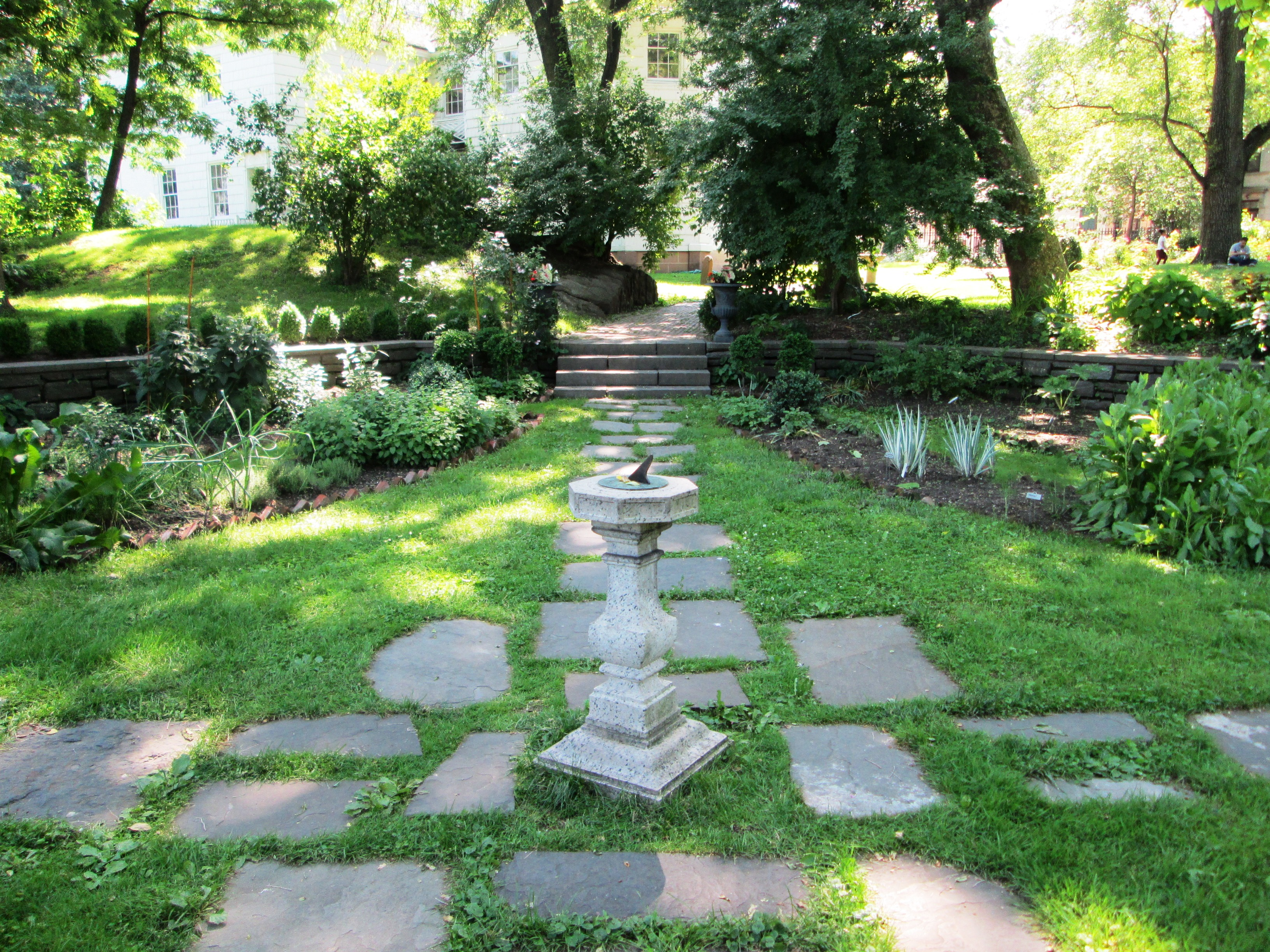 Roger Morris Park is a park of the New York City Department of Parks and Recreation located in the Washington Heights neighborhood of Manhattan, New York City. It is bounded by West 160th Street on the south, Jumel Terrace on the west, West 162nd Street on the north and Edgecombe Avenue on the east. Within the park is the Morris–Jumel Mansion, also known as the Roger and Mary Philipse Morris House, "Mount Morris" and other similar names, the oldest house in the borough, built in 1765.